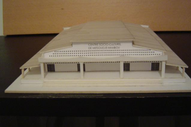 centre culturelle Mistoudjé